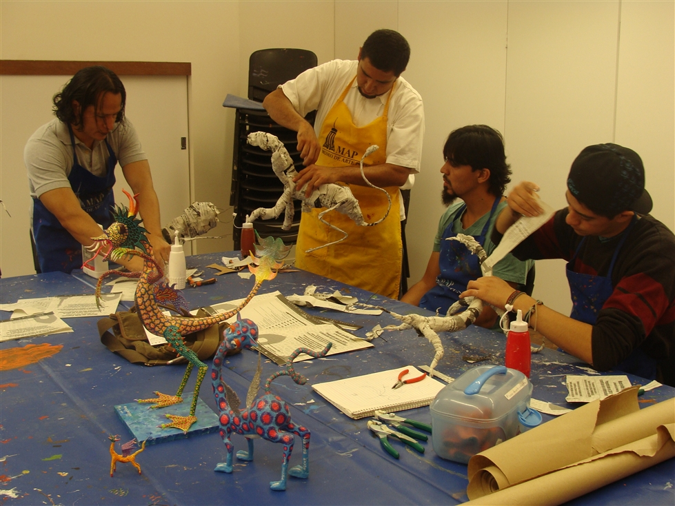 Workshop to create alebrijes at the Museo de Arte Popular